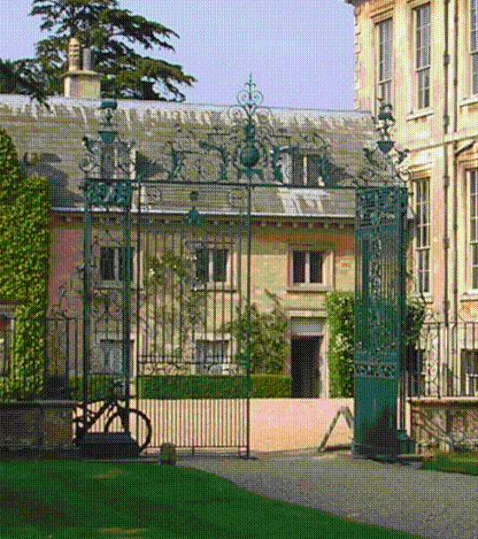 Wrought iron gate. Photographed by uploader.